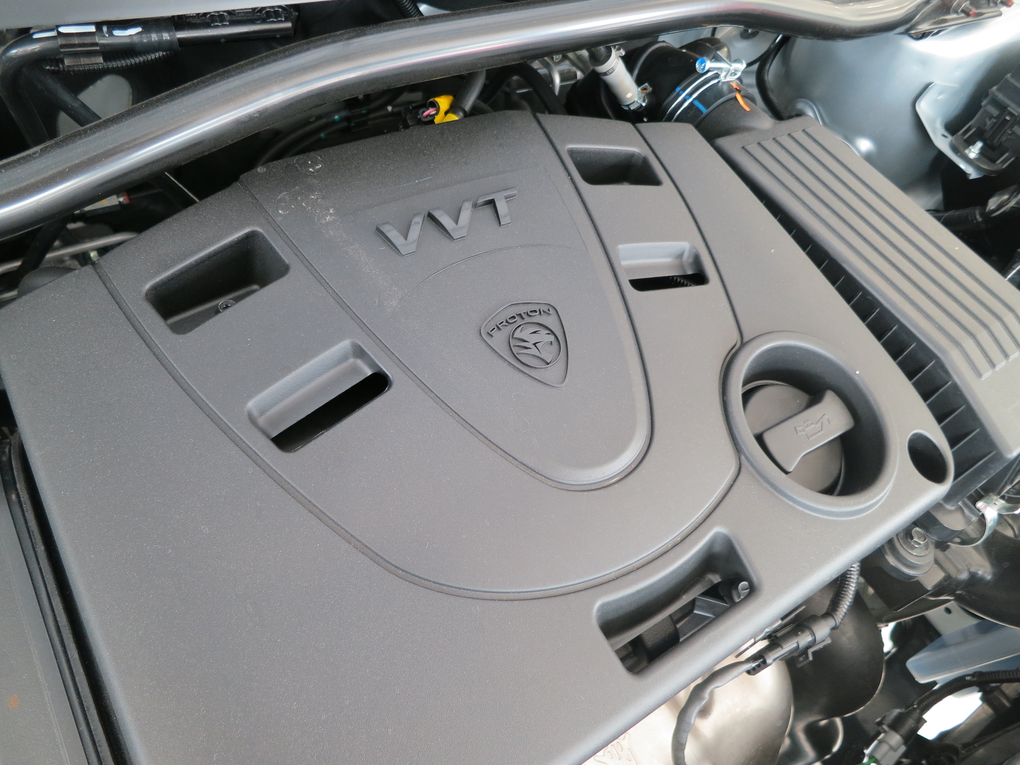 A 2019 Proton Saga Premium AT photographed at Autobinee Oriental Sdn Bhd, Penang, Malaysia on the 7th of August 2019.